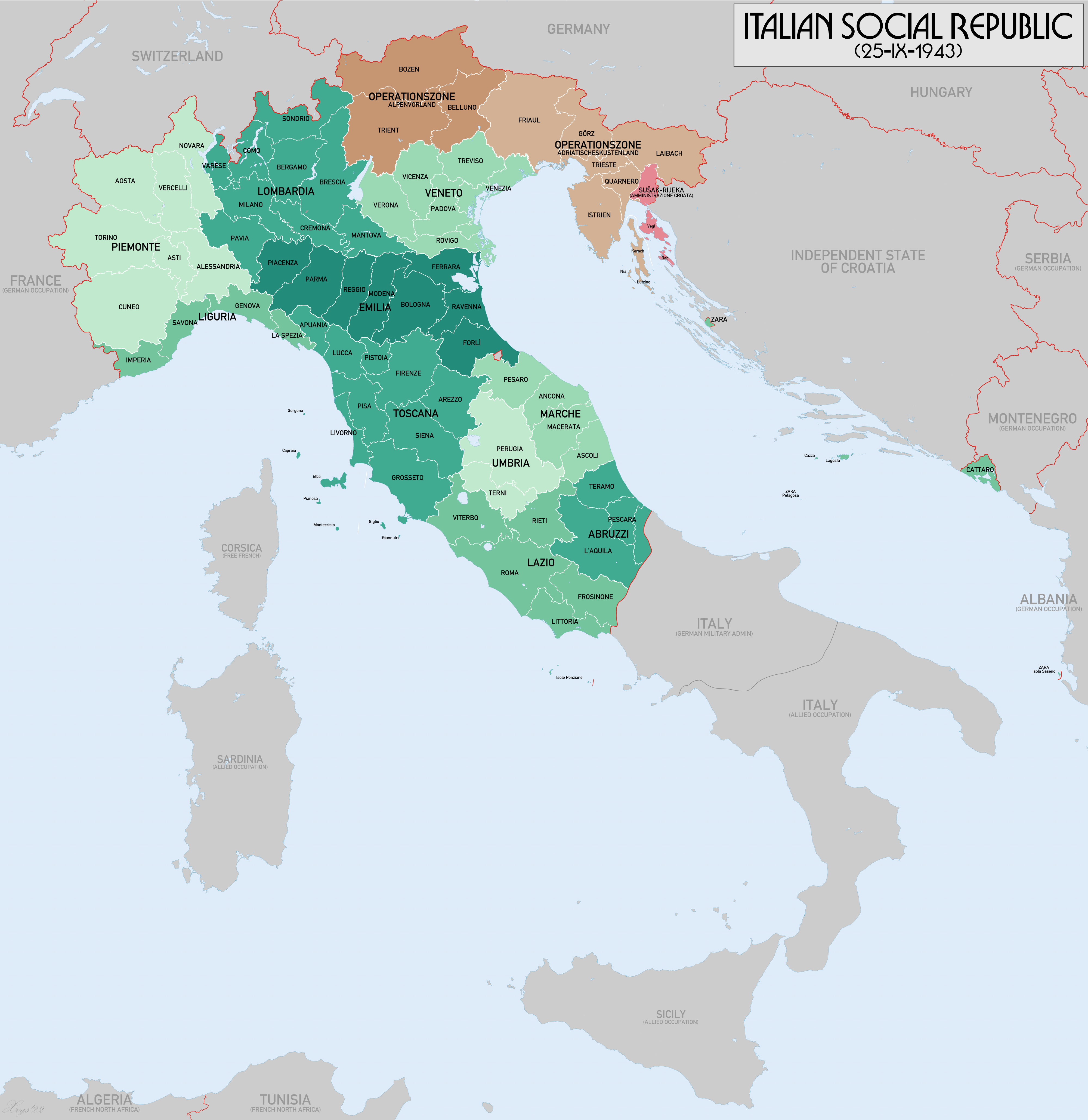 Administrative map of the Italian Social Republic on 25-IX-1943. showing regions and provinces. Source data: Italy 250k (AMS 508), Italy 100k (GSGS 4164), Italien 100k (Deutsche Heereskarte) courtesy of